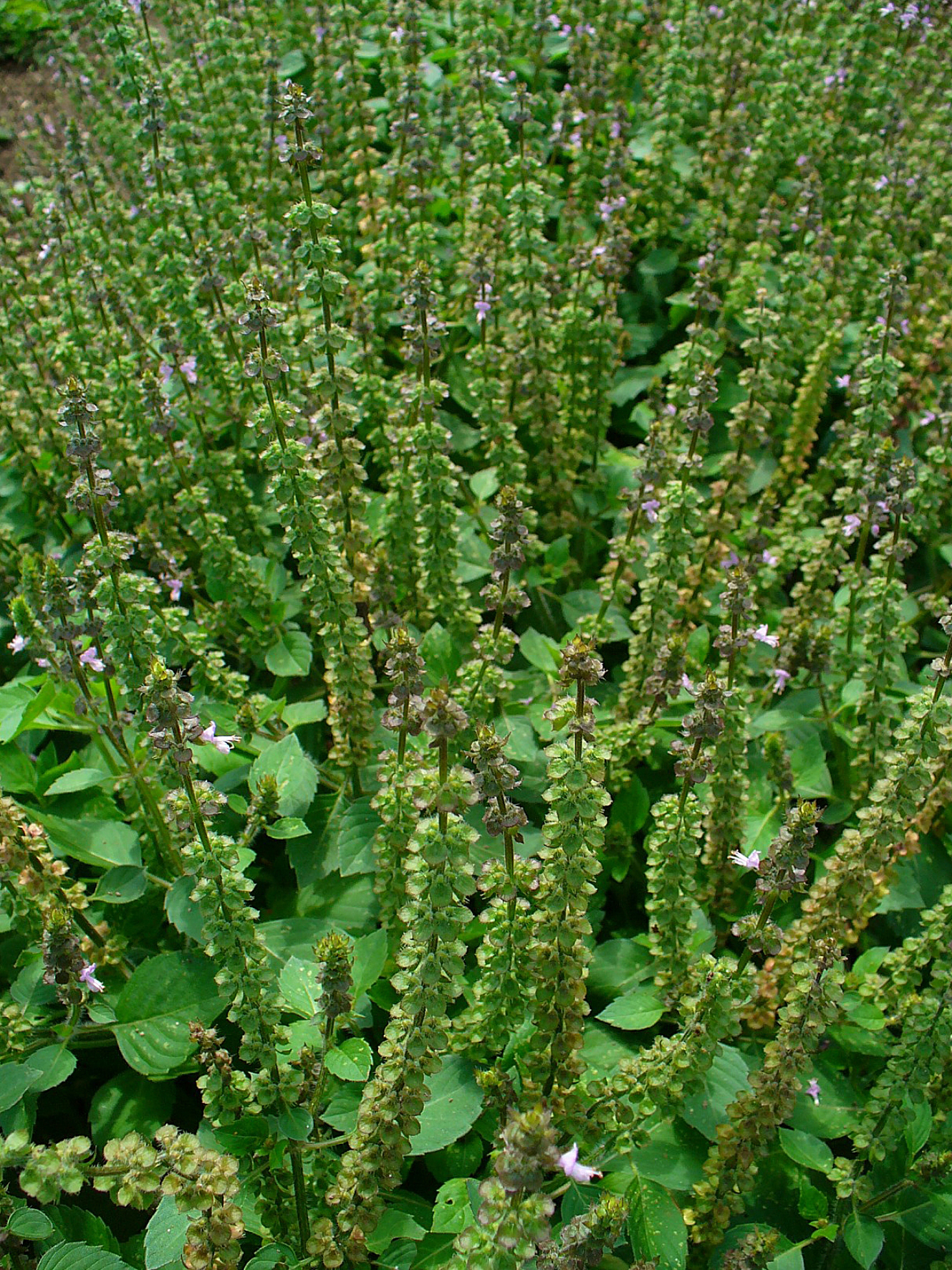 American Basil; Habitus; Stutensee, Germany.